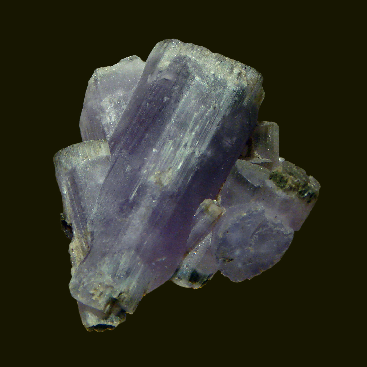 Fluorapatite, Afghanistan.